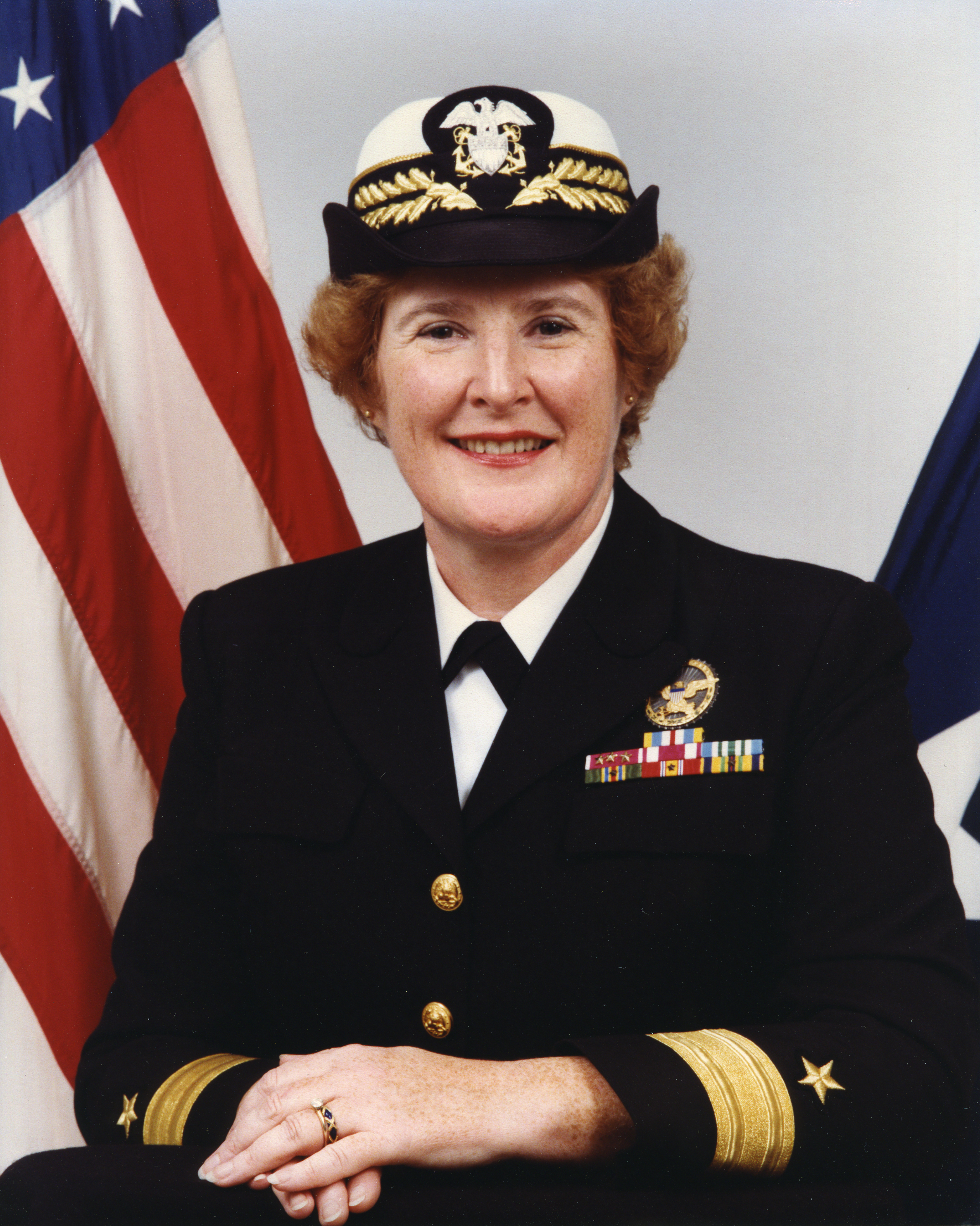 Official portrait photograph of RADM Louise C. Wilmot